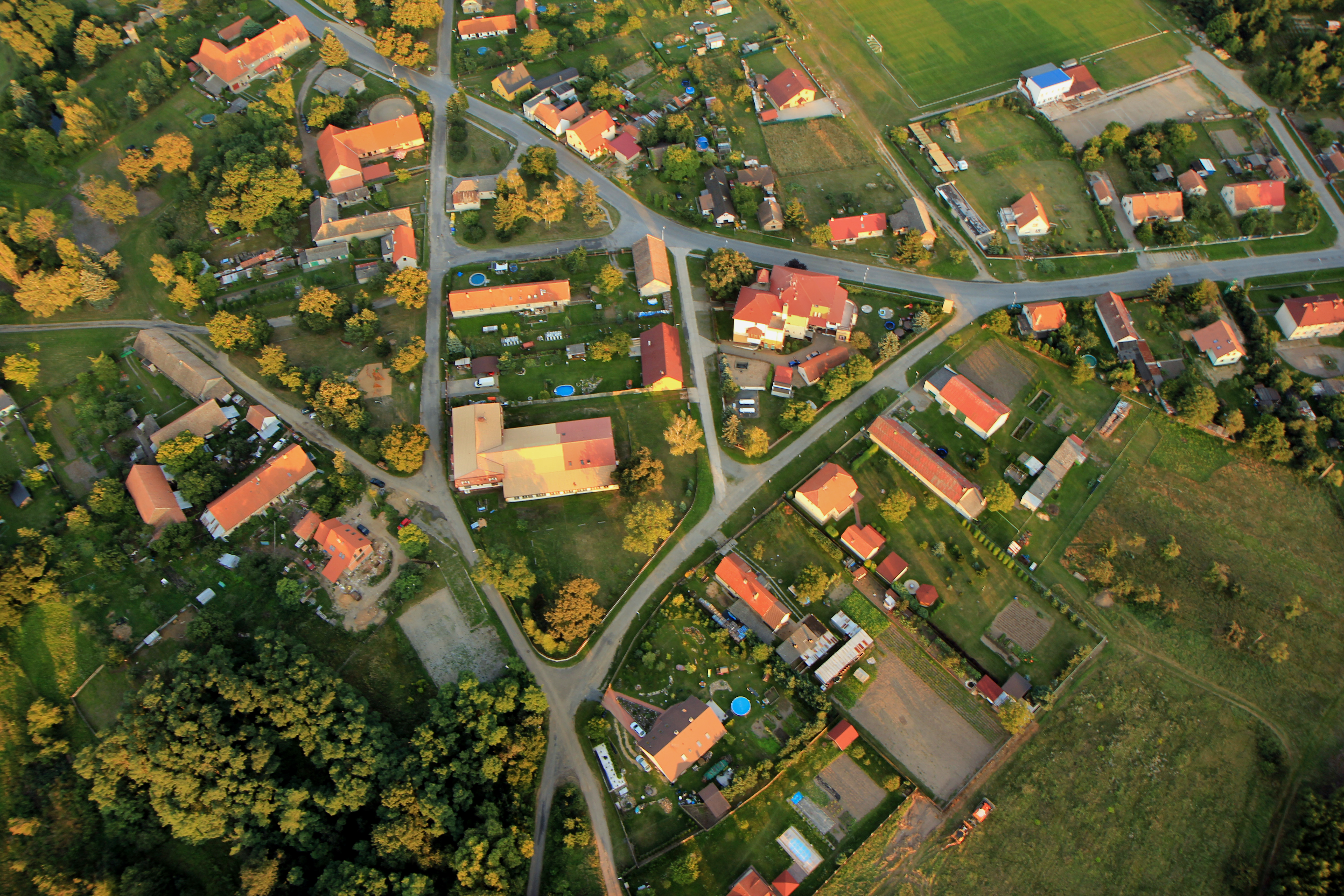 Aerial view Lipník, Czech Republic